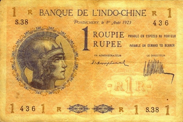 A banknote produced to circulate in French India by the Bank of Indo-China.